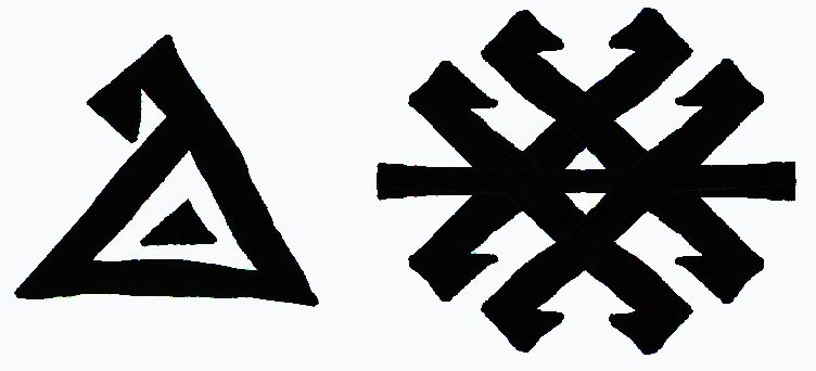 Scorpion kilim motif, for protection from them